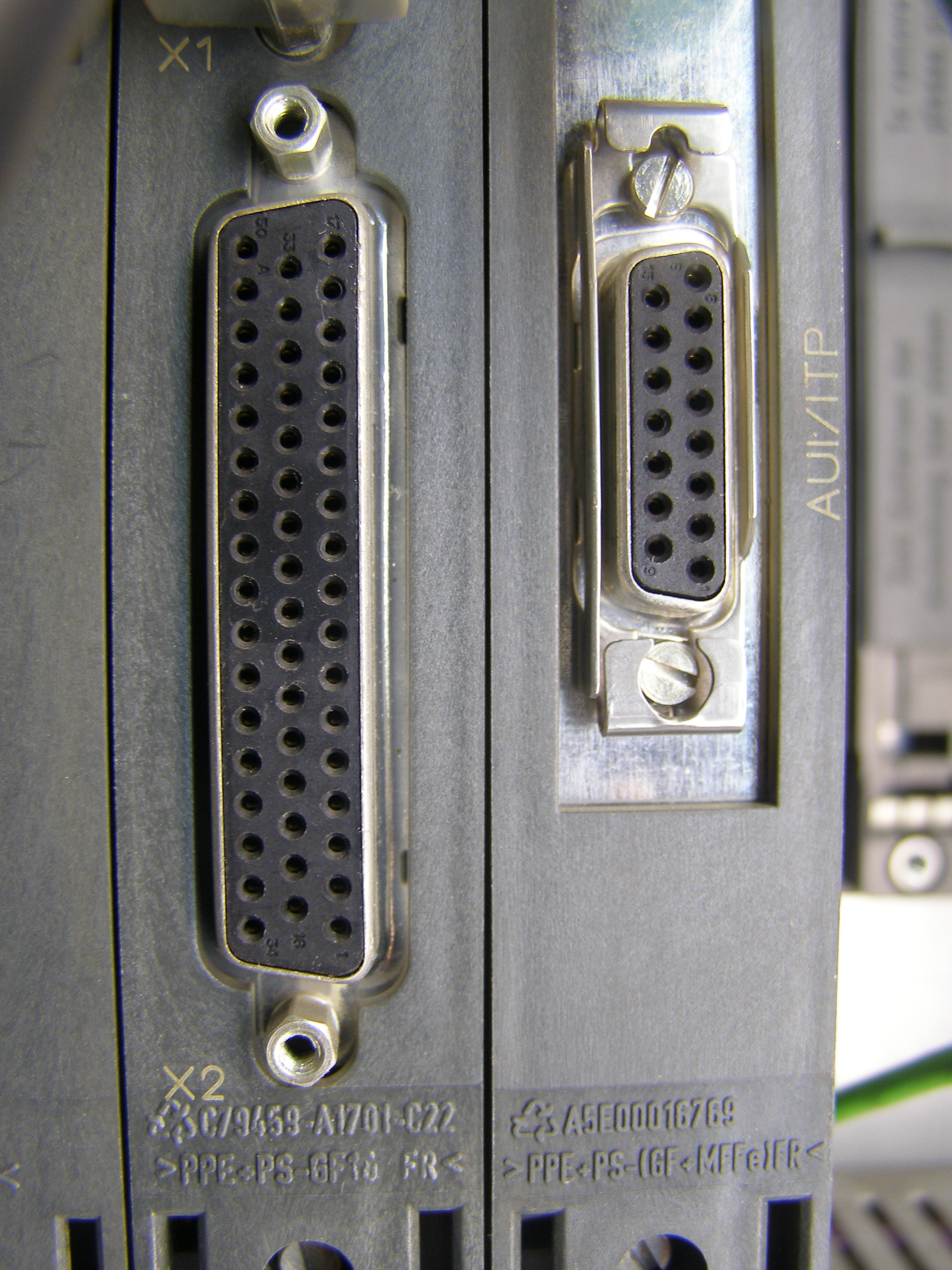 Outer interfaces of Siemens S7-400.